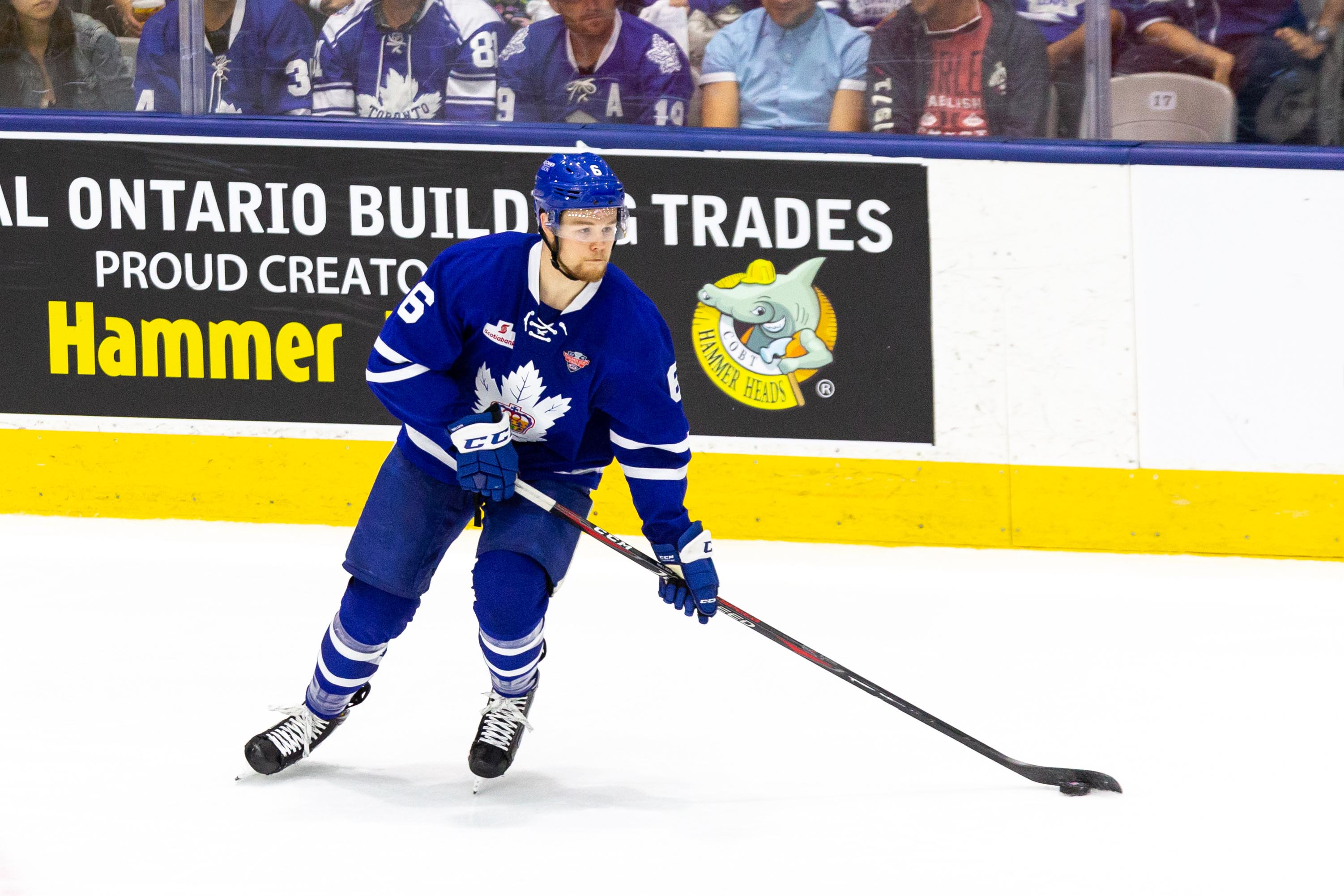 Photo: Thomas Skrlj/AHL